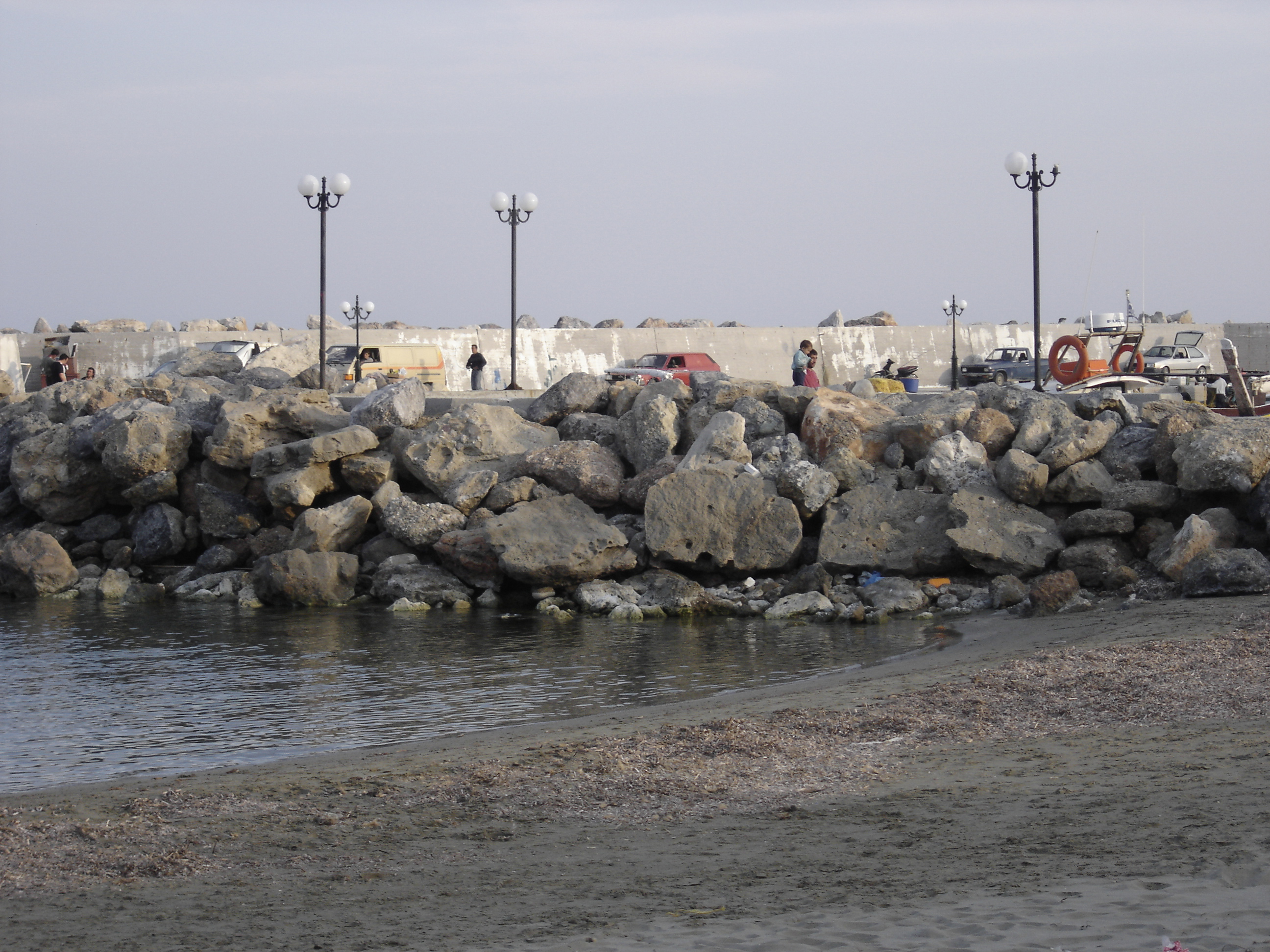 Beach of Makrigialos, Lasithi.